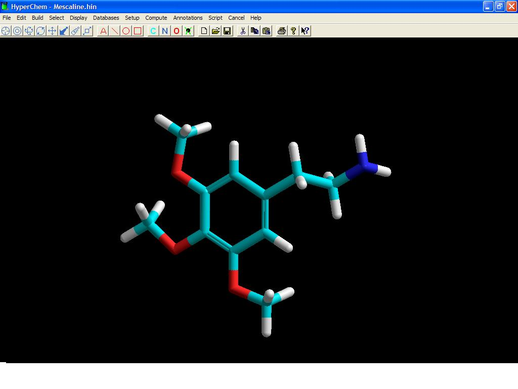 Mescaline Structure Model In Tube Rendering